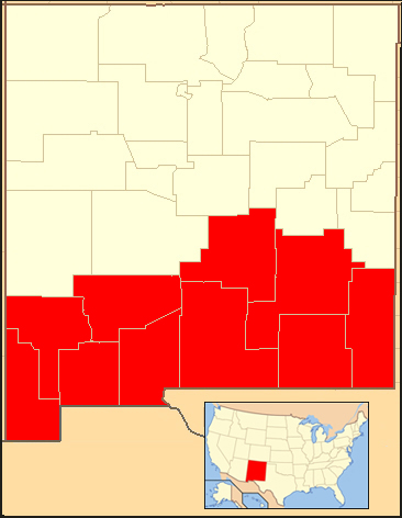 Map of Catholic dioceses of Las Cruces in USA.